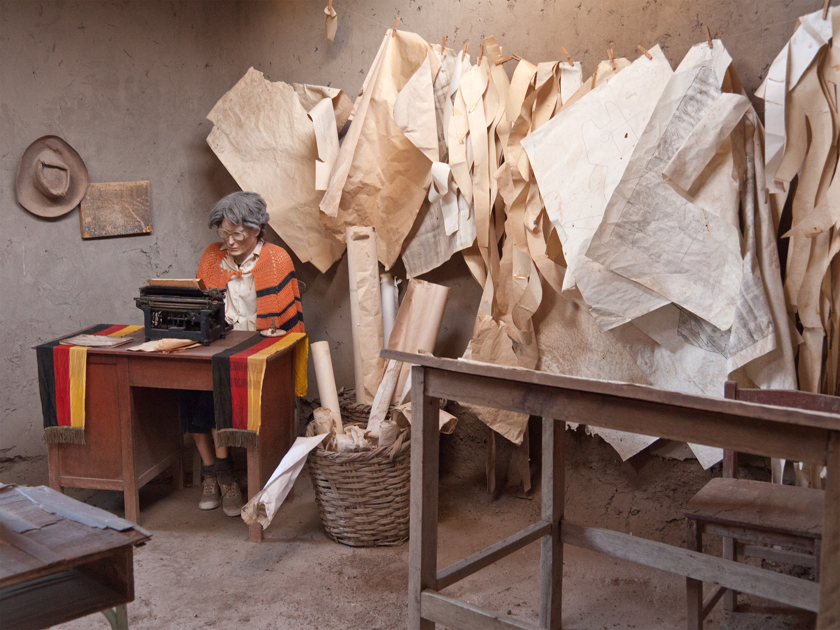 Maria Reiche, Wax statue in the Museum dedicated to her near Nazca, Peru